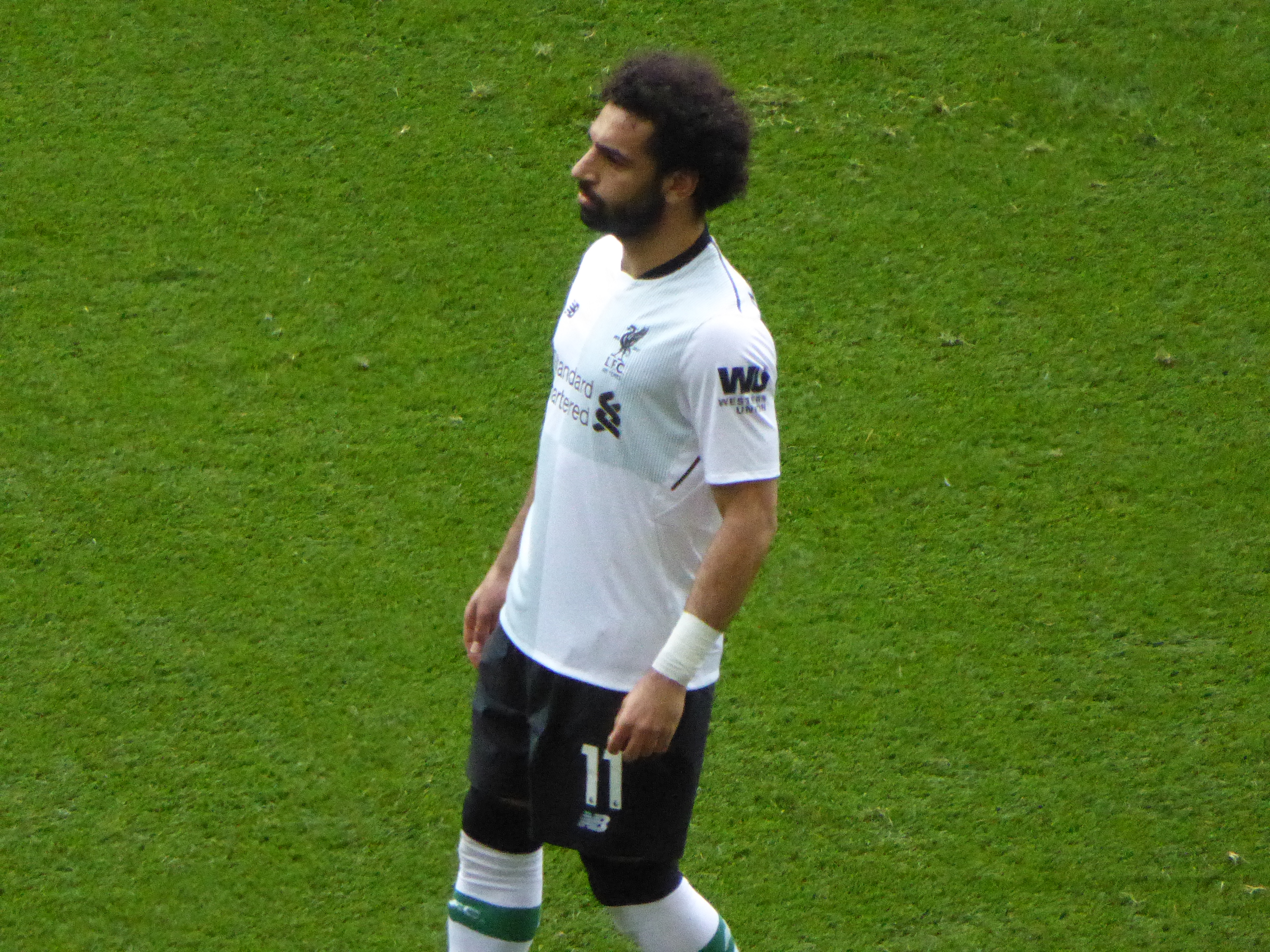 Manchester United v Liverpool (2-1), Premier League, Old Trafford, Manchester, Greater Manchester, England, 10 March 2018